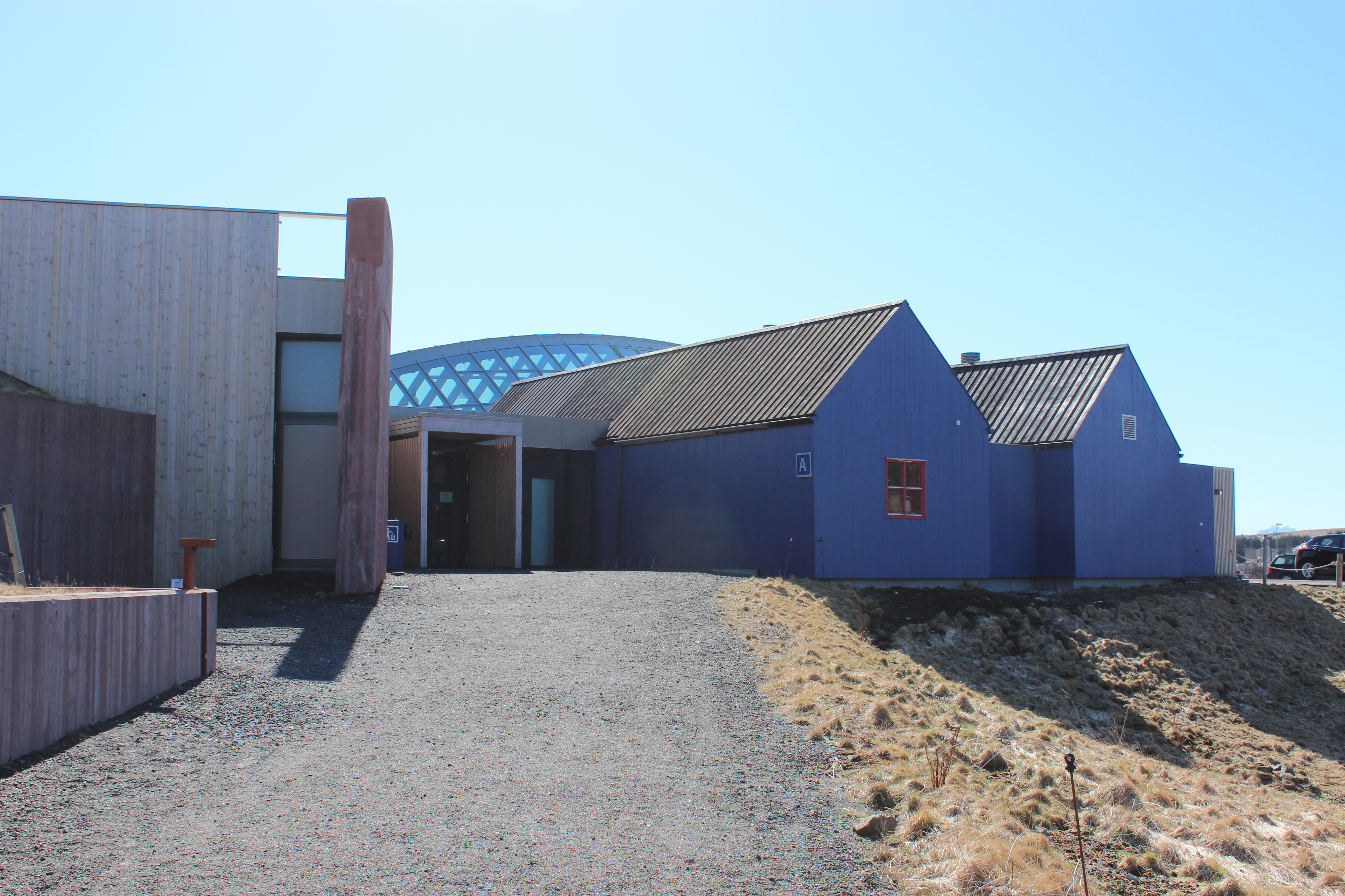 The entrance to Lofotr Vikingmuseum